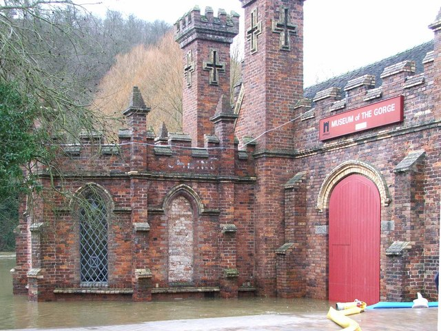 Museum of the Gorge at high water See the tidemark on the walls: the river has been higher than this. Compare with the other image of this building: the people shown on that would be completely submerged.